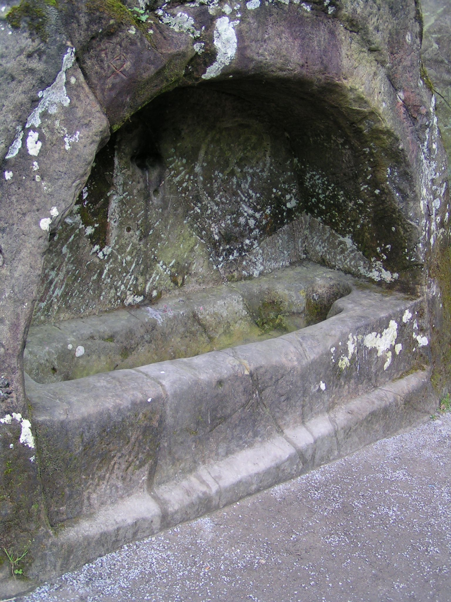 Arcosolium, Externsteine, Germany.